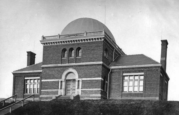 The Proudfit Observatory on the old RPI campus, shortly after construction in 1878. Rensselaer Polytechnic Institute, Troy, NY